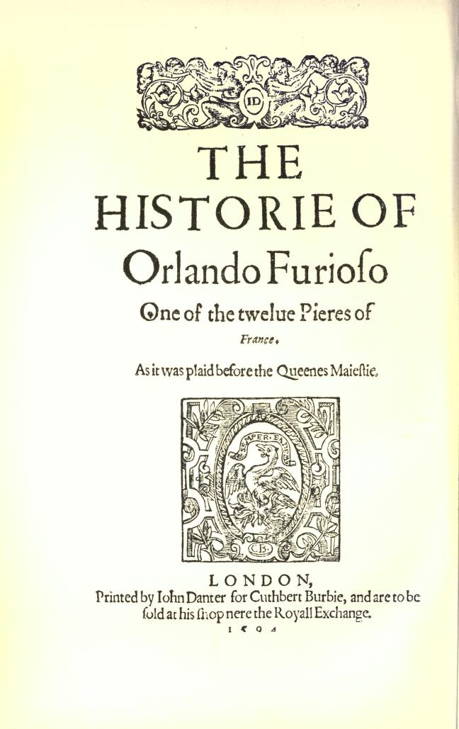 Title page of 1594 edition of "Orlando Furioso" by Robert Greene